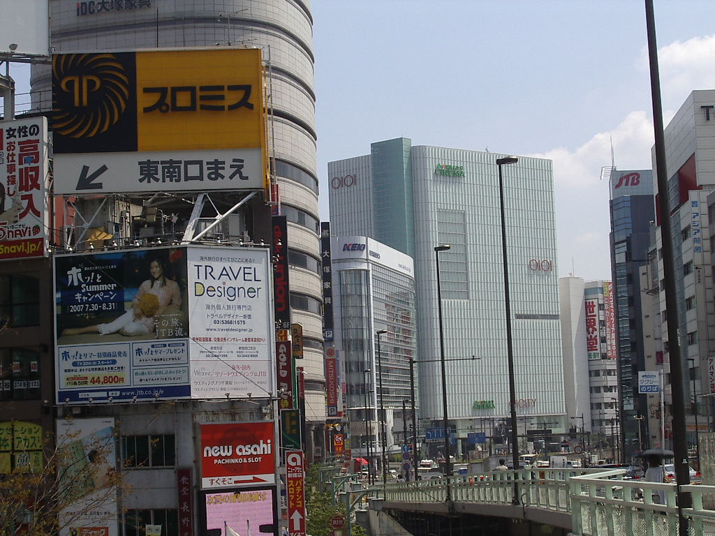 Shinjuku Wald9 taken from Shinjuku Station West-South Gate